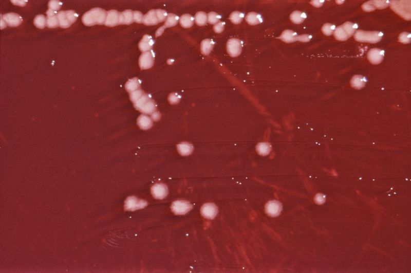 Pseudomonas aeruginosa bacterial culture on an Xylose Lysine Sodium Deoxycholate (XLD) agar plate.